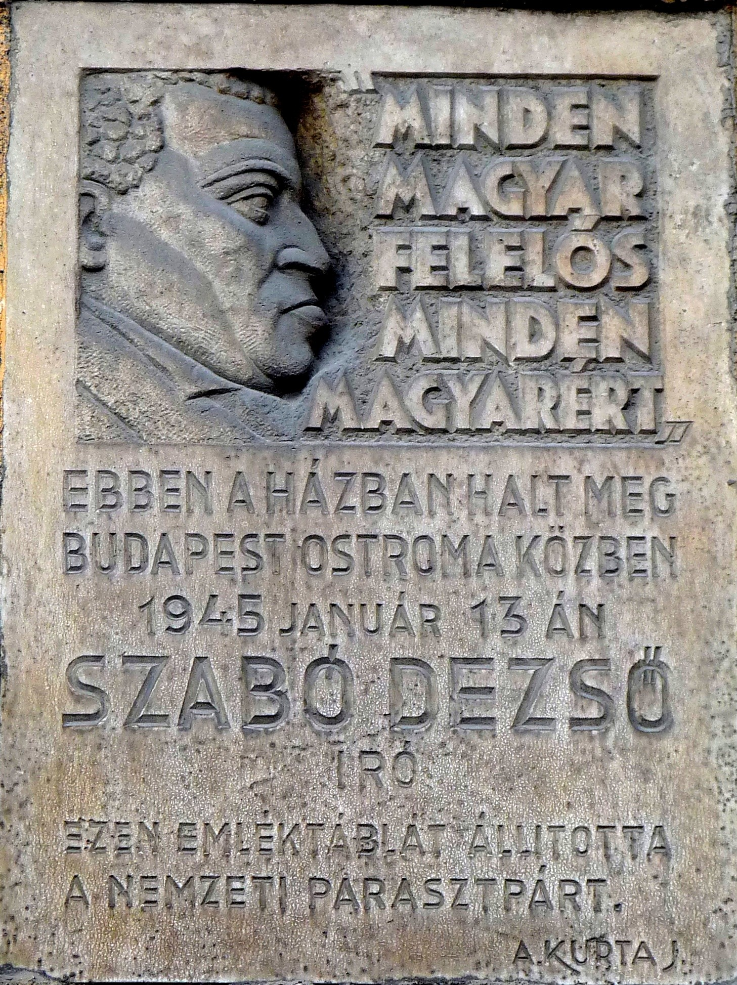 Commemorative plaque to Mr. Dezső Szabó (1879–1945) Hungarian writer. It is placed on the front of the building where he died during the siege of Budapest in 1945. Author of the relief is Mr. János Andrássy Kurta. (Budapest, District VIII, Krúdy Street Nr 16-18).